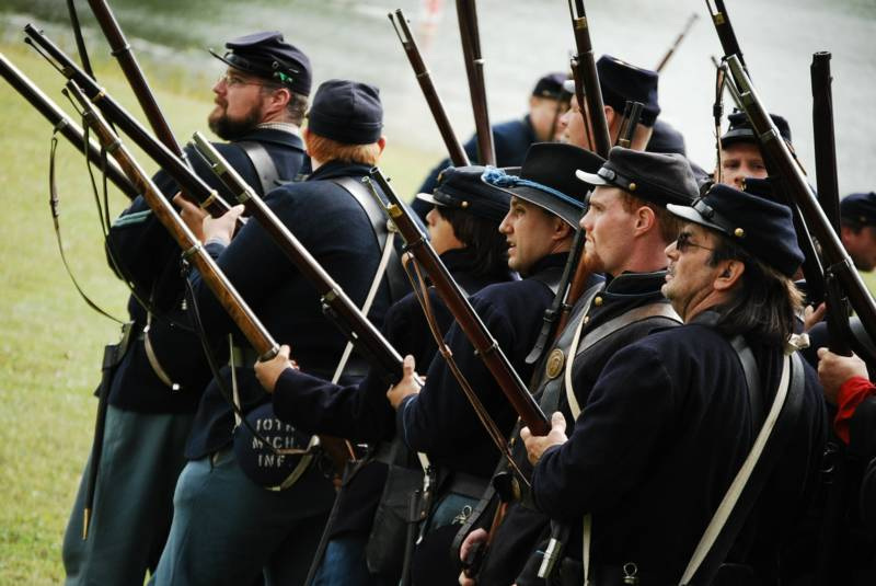 Tenth Michigan Infantry 5th annual Civil War Muster, Mt. Pleasant, Michigan.